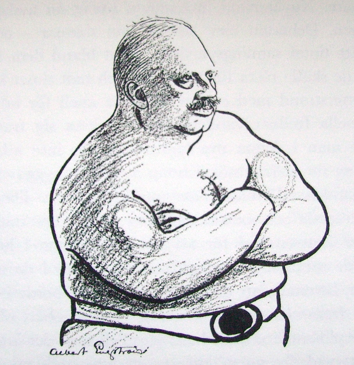 Picture of drawing of Axel Schotte, Swedish politician